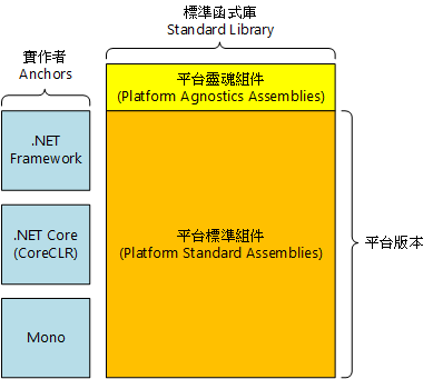 .NET Standard Library Architecture